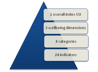 Definition of the SSI Index